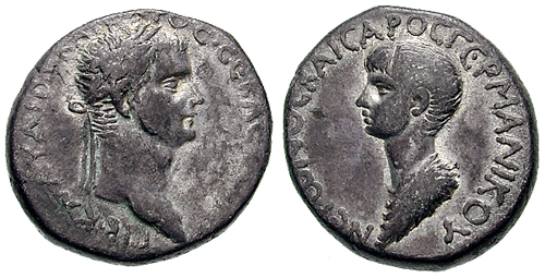 Claudius & Nero AR Tetradrachm of Antioch, Syria. 50-54 AD. TIB KLAUDIO ΚΑΙCΑΡΟC ΓΕΡΜ C(EBAC?), laureate head of Claudius right ΝΕΡΩΝΟC ΚΑΙCΑΡΟC ΓΕΡΜΑΝΙΚΟΥ, bare headed & draped bust of Nero left. Prieur 68. AR Tetradrachm (14.72 gm) Prieur 68; RPC I 4169 (this coin possibly specimen 5). Toned, near VF. Very rare, only 8 specimens recorded by Prieur, most in museum collections.